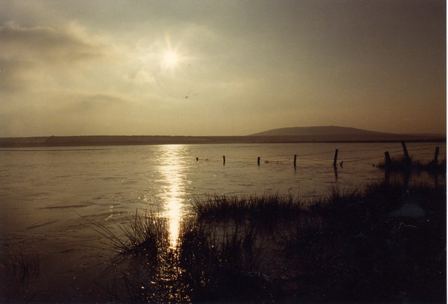 Dozmary Pool 1989